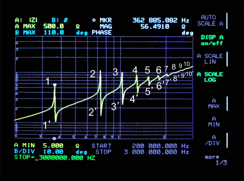 A network analyzer display showing the impedance (vertical axis) of the secondary winding of a Tesla coil as a function of frequency (horizontal axis). The horizontal axis goes from 300 kHz to 2 MHz and the vertical axis from 5000 to 500 ohms. Both axes are exponential. It shows the secondary acts as a transmission line which resonates at multiple frequencies. The oscillating radio frequency current induced in the secondary by the primary travels up the narrow coil and reflects from the top 'toroid' electrode and travels back down the coil. At frequencies at which the coil is a multiple of a half wavelength, the direct and reflected waves interfere to form standing waves, causing resonance. Each of the double peaks numbered 1 through 10 is a resonant frequency of the coil. The lowest frequency, around 370 kHz, is the fundamental frequency of the coil, at which the coil is a quarter wavelength long. The others, at about 740, 1100, 1200, 1400, 1700, 2200, 2500, and 2700 kHz are overtone resonances. Tesla coils normally oscillate at their fundamental frequency if the primary is properly tuned. Oscillations at overtone frequencies cause maxima of voltage (antinodes) along the secondary winding, which can cause arcing which can damage the delicate wire.